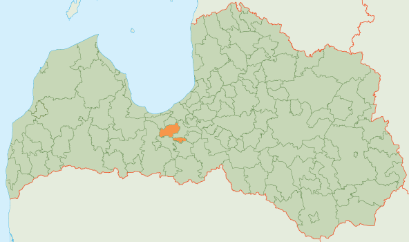 Map of Olaine municipality, Latvia